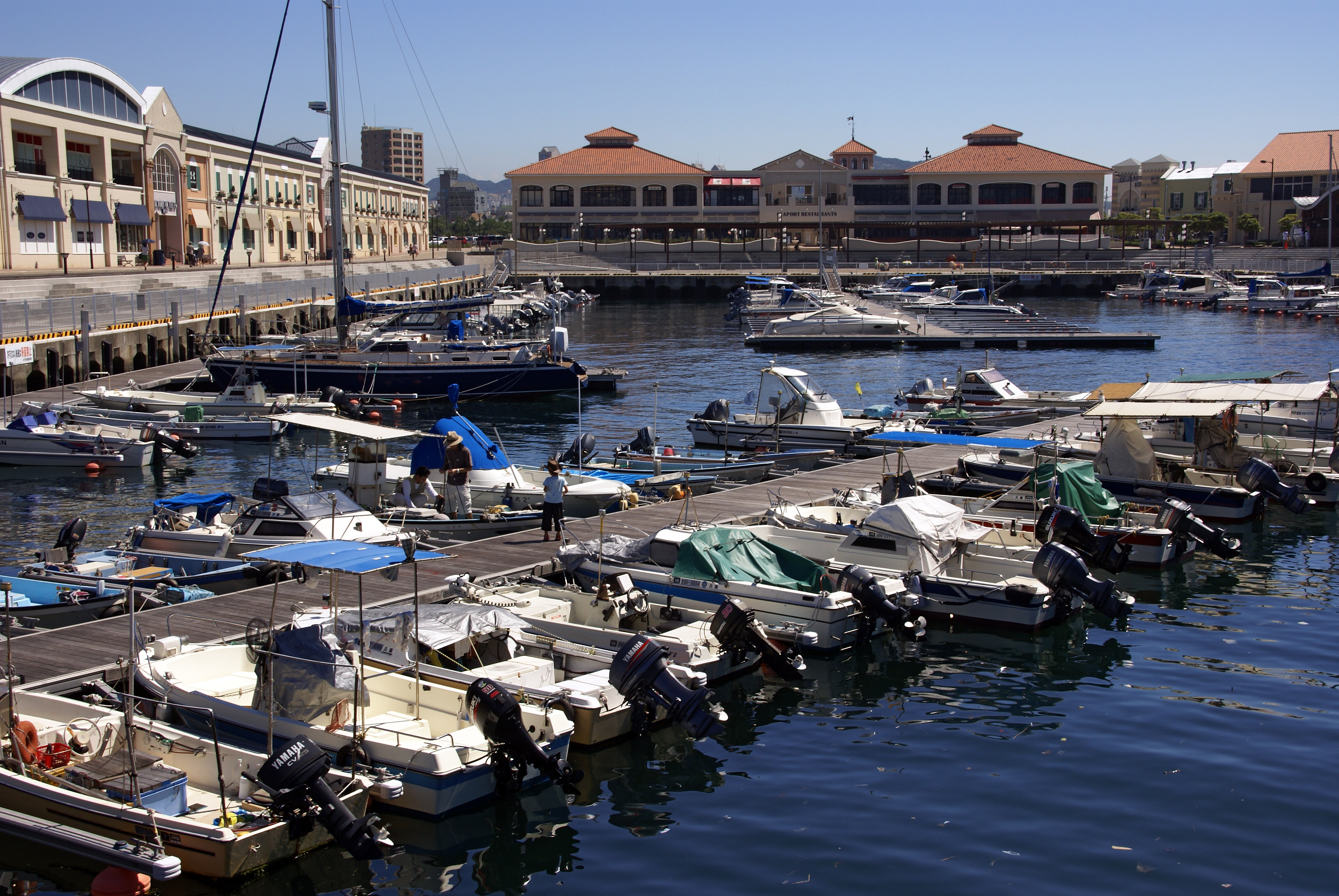 Marine pia Kobe in Kobe, Hyogo prefecture, Japan